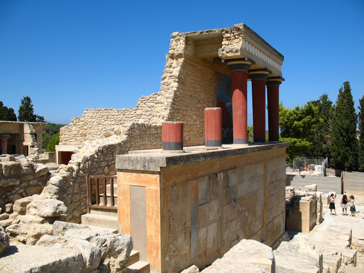 Кносский дворец